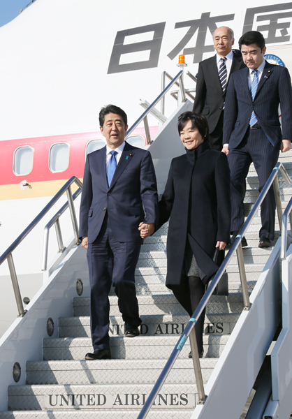 Prime Minister Shinzō Abe arriving in the United States together with Akie Abe on November 17, 2016.